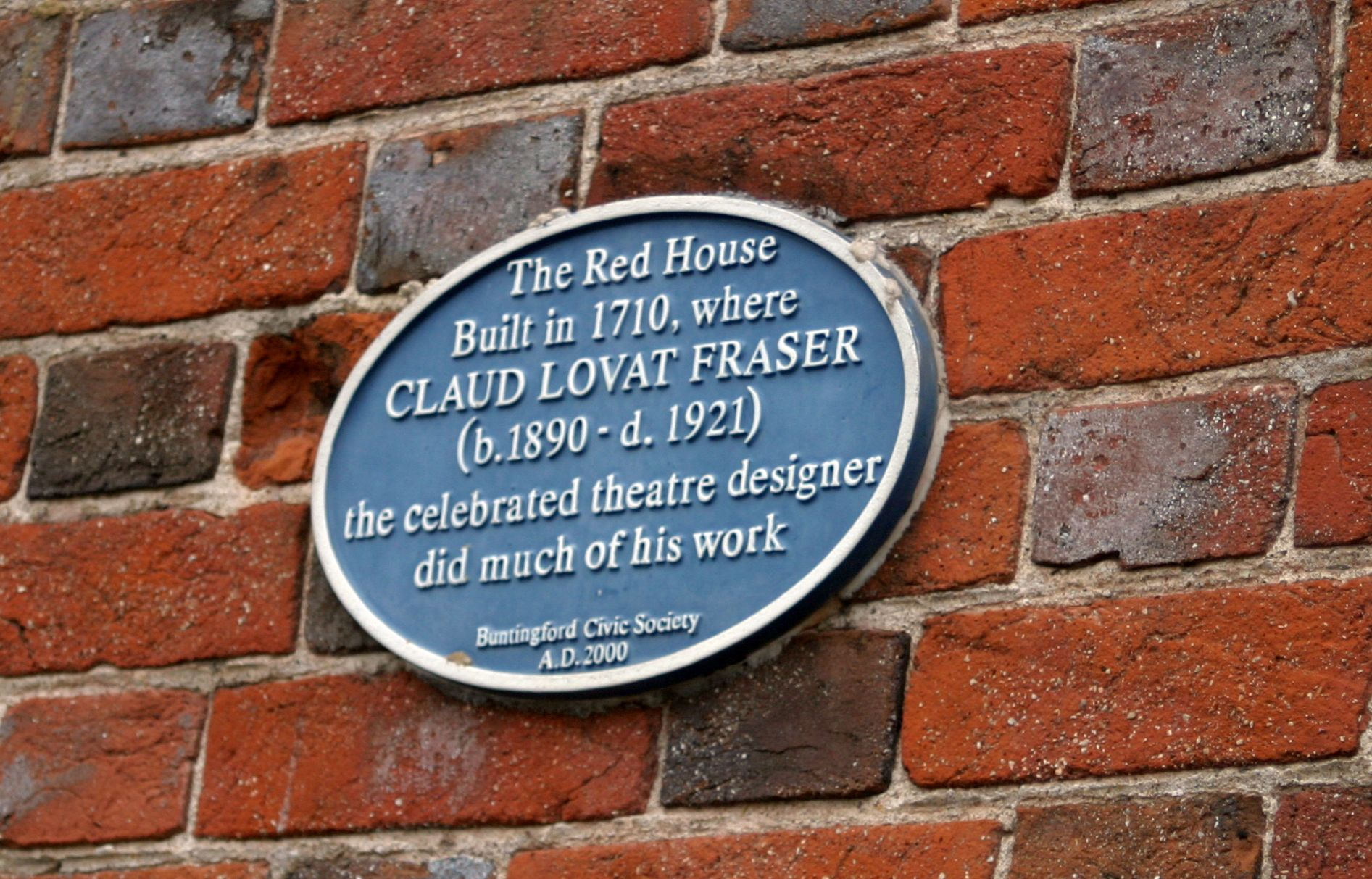 Bluse Plaque on Red House, Buntingford, Herts, detailing Claud Lovat Fraser's residence